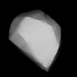 3D convex shape model of 489 Comacina, computed using light curve inversion techniques. J. Hanuš, J. Ďurech, M. Brož, B. D. Warner (June 2011). "A study of asteroid pole-latitude distribution based on an extended set of shape models derived by the lightcurve inversion method". Astronomy and Astrophysics 530: A134. ISSN 0004-6361. arXiv